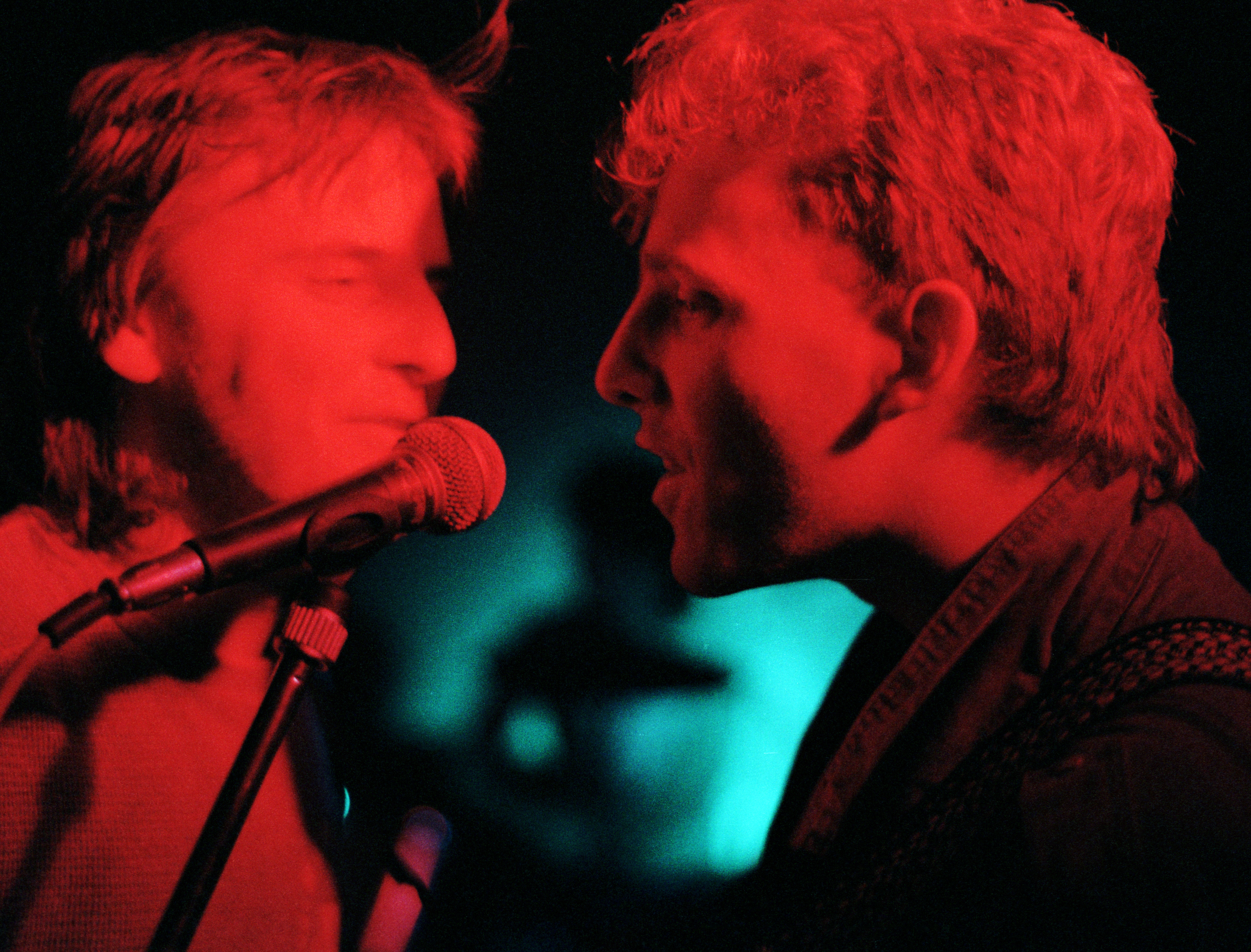 Deiniol Morus & Hefin Huws. Maffia Mr Huws & Y Cyrff - playing at Neuadd Pantycelyn, Aberystwyth in 1985. Image by Medwyn Jones